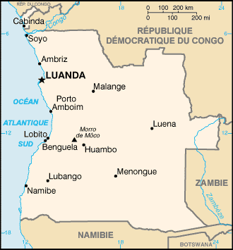 Map in French of Angola